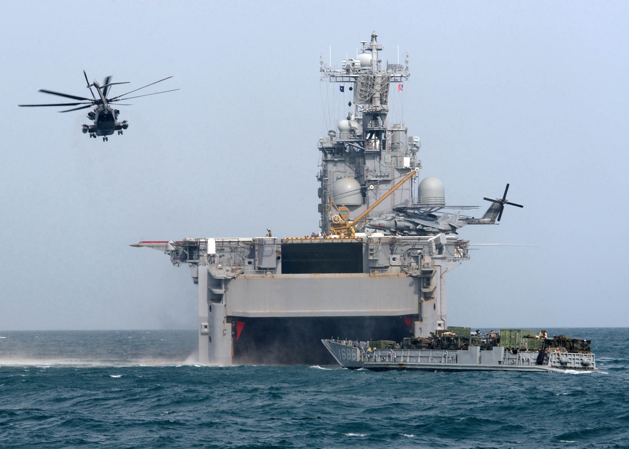 030212-N-1131G-021 The Persian Gulf, (Feb. 12, 2003) -- Activity hums around the San Diego-based amphibious assault ship USS Tarawa (LHA 1), as U.S. Marines go ashore in Kuwait. A Landing Craft Utility (LCU) leaves the ship's well deck with equipment and Marines from the 15th Marine Expeditionary Unit (MEU) Special Operations Capable (SOC) while a CH-53E "Super Stallion" helicopter heads to the beach. U.S. Navy photo by Photographer's Mate 3rd Class Taylor Goode. (RELEASED)